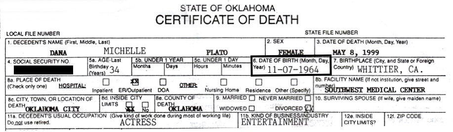 Top half of Dana Plato's official death certificate.